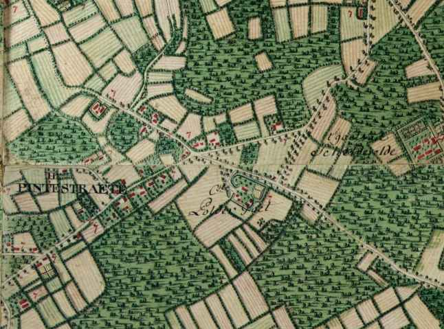 De Pinte,_Belgium_;_ detail from Ferraris_Map